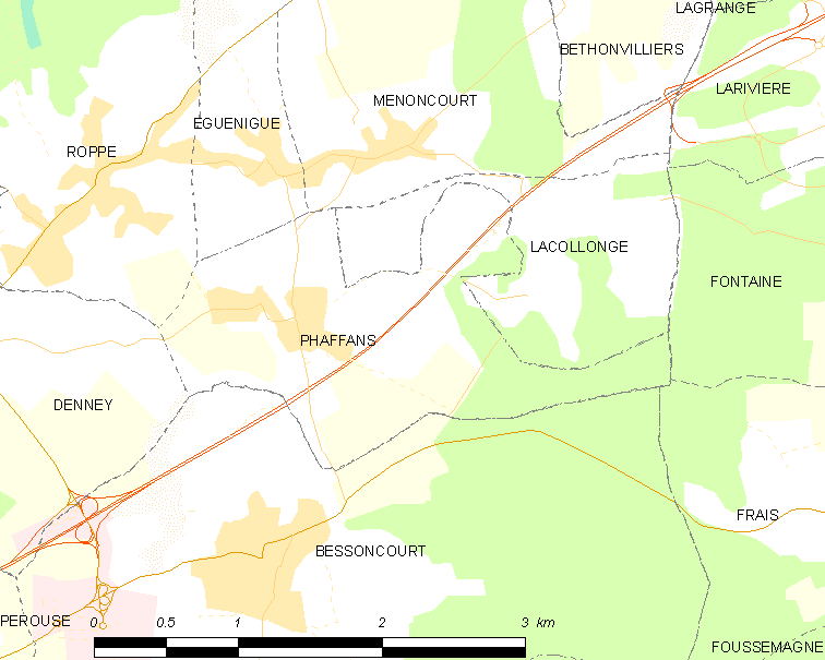 Map of French municipality Phaffans